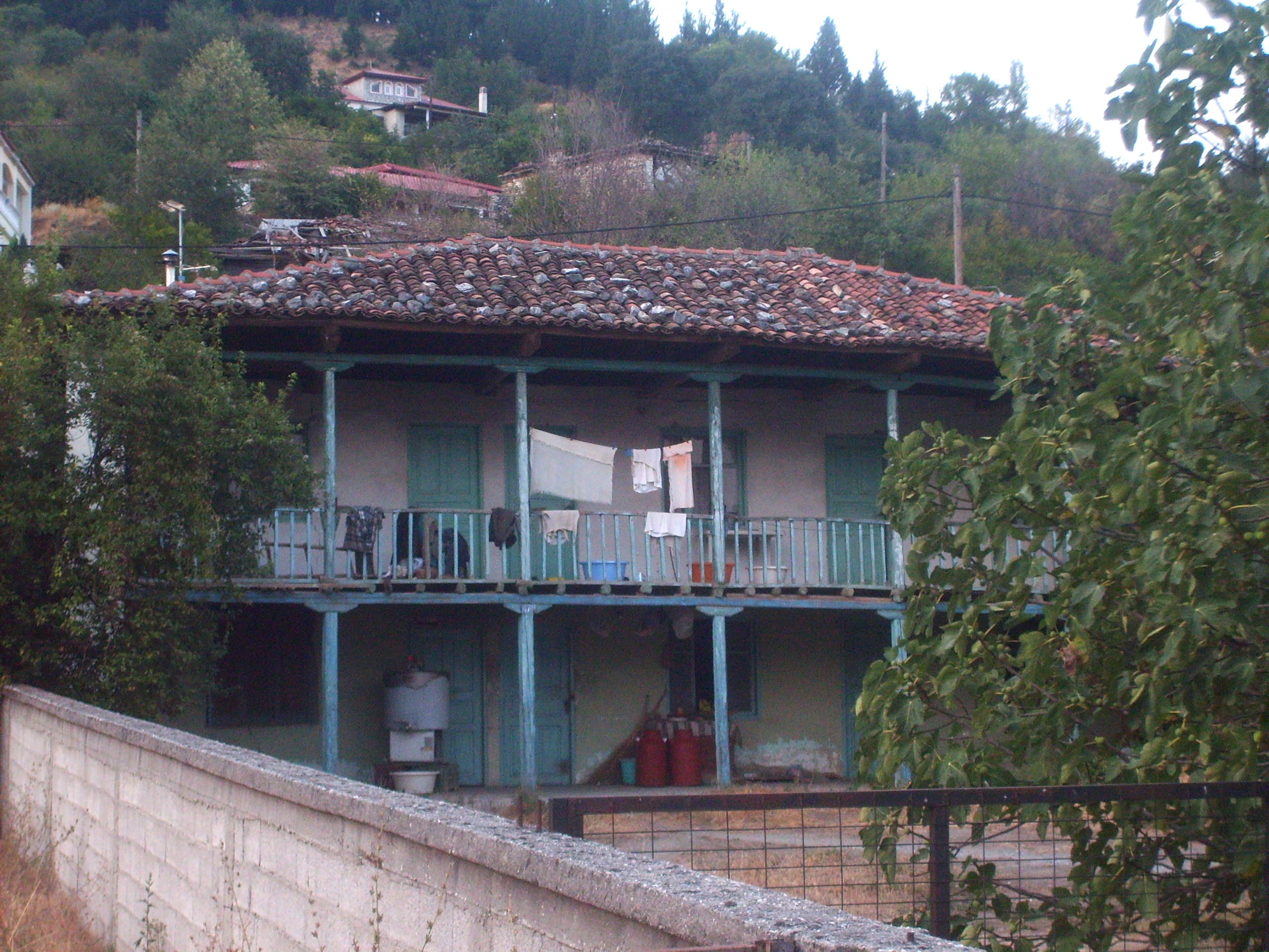 Older house in the village Garefi, Almopia, Greece